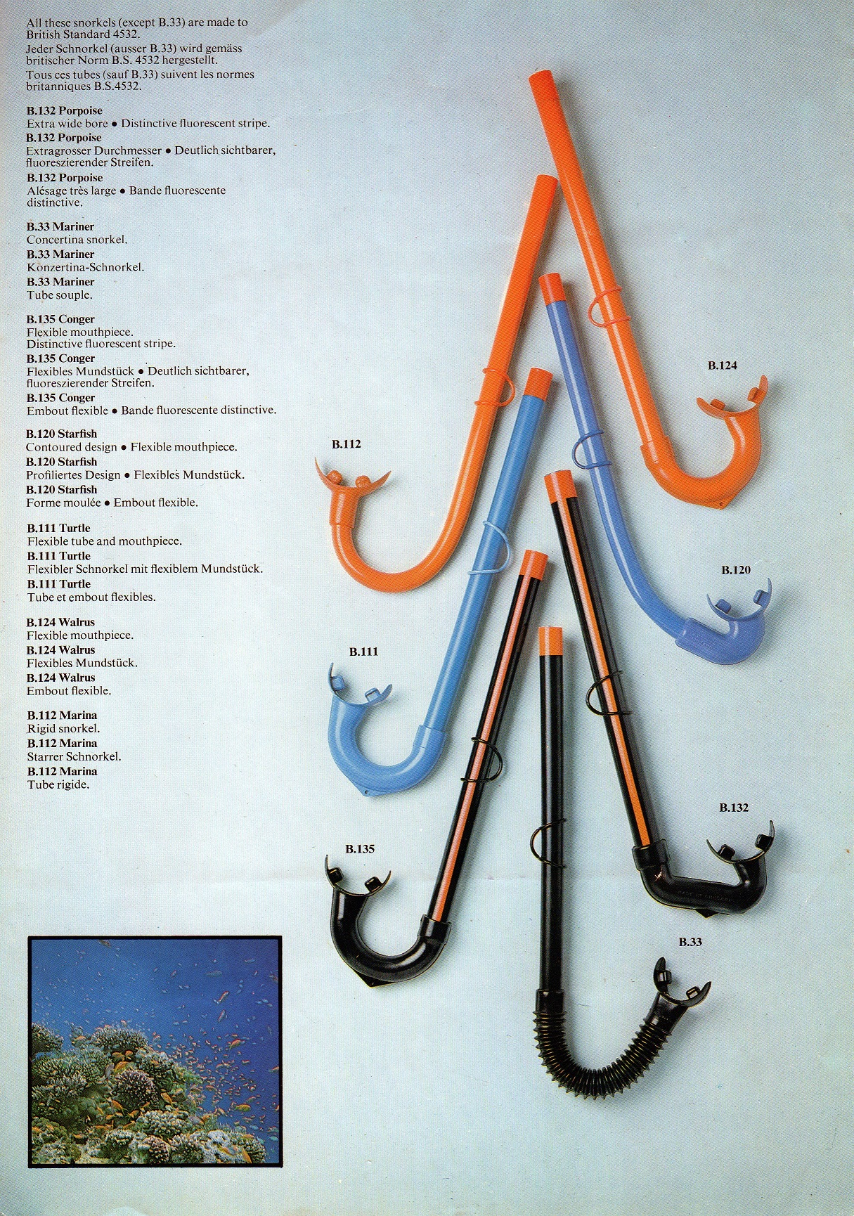 The image shows a range of seven snorkels in a Britmarine (W. W. Haffenden) Sub-Aqua catalogue from the 1970s. The captions in English, French and German describe the features of each snorkel and identify which six are made to British Standard BS 4532 "Specification for snorkels and face masks" of 1969.